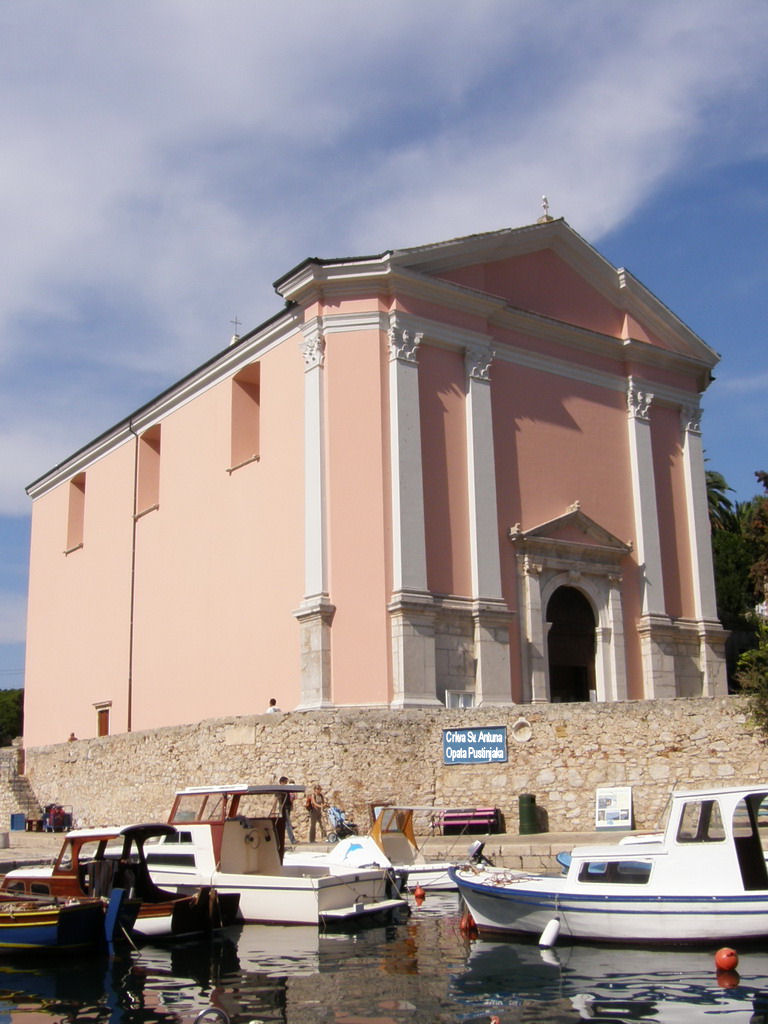 Church of St. Antun Opat Pustinjak in Veli Lošinj, in Croatia.